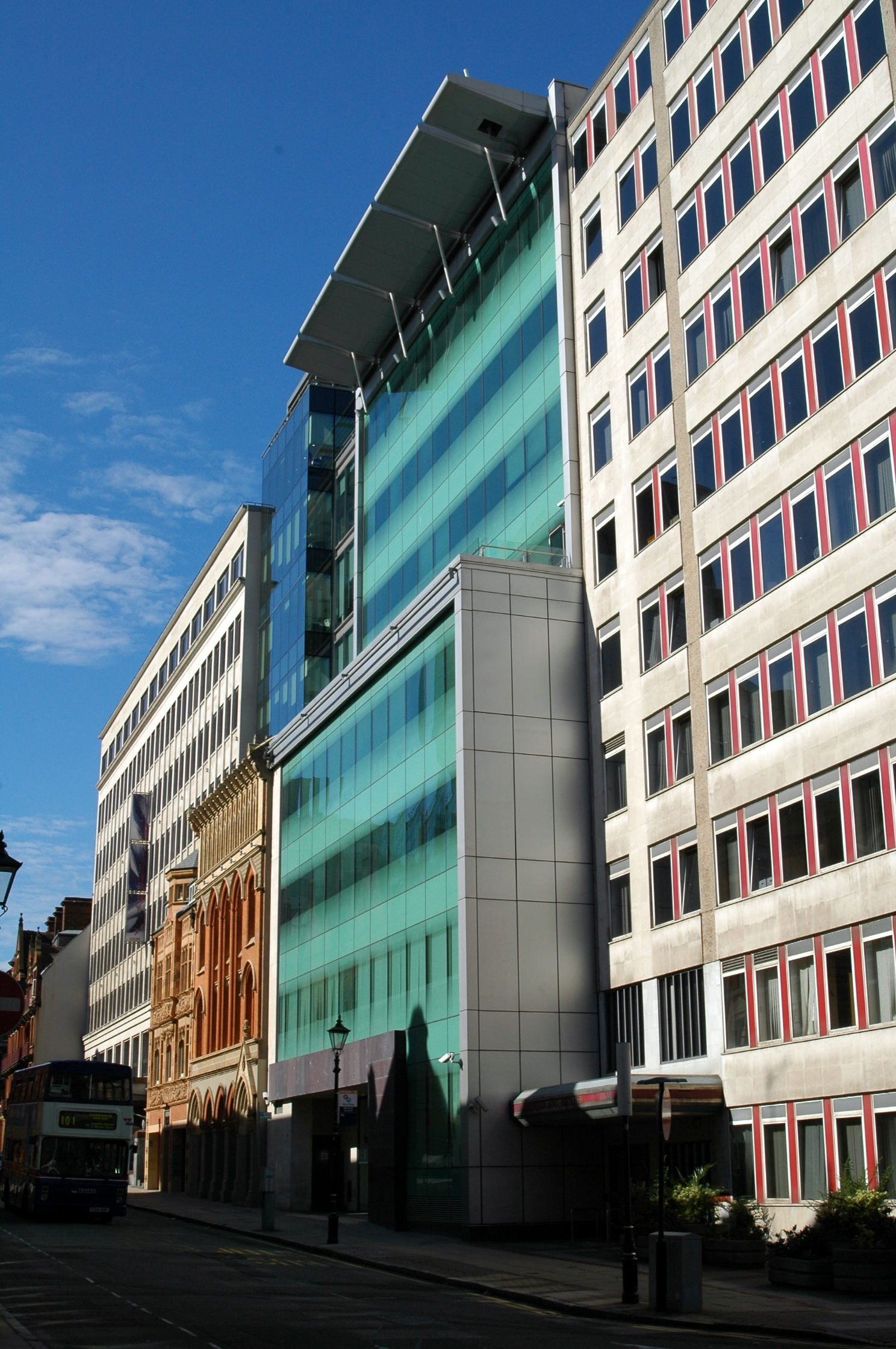 Recent development on Edmund Street in Birmingham. The modern blue building is 140-146 Edmund Street, 2000, by Jonathan Wingfield of WSM Architects . To its left are original fronts of two grade II listed buildings, number 134 on the left, and 138 (136-138) (with five arches). In the United Kingdom.